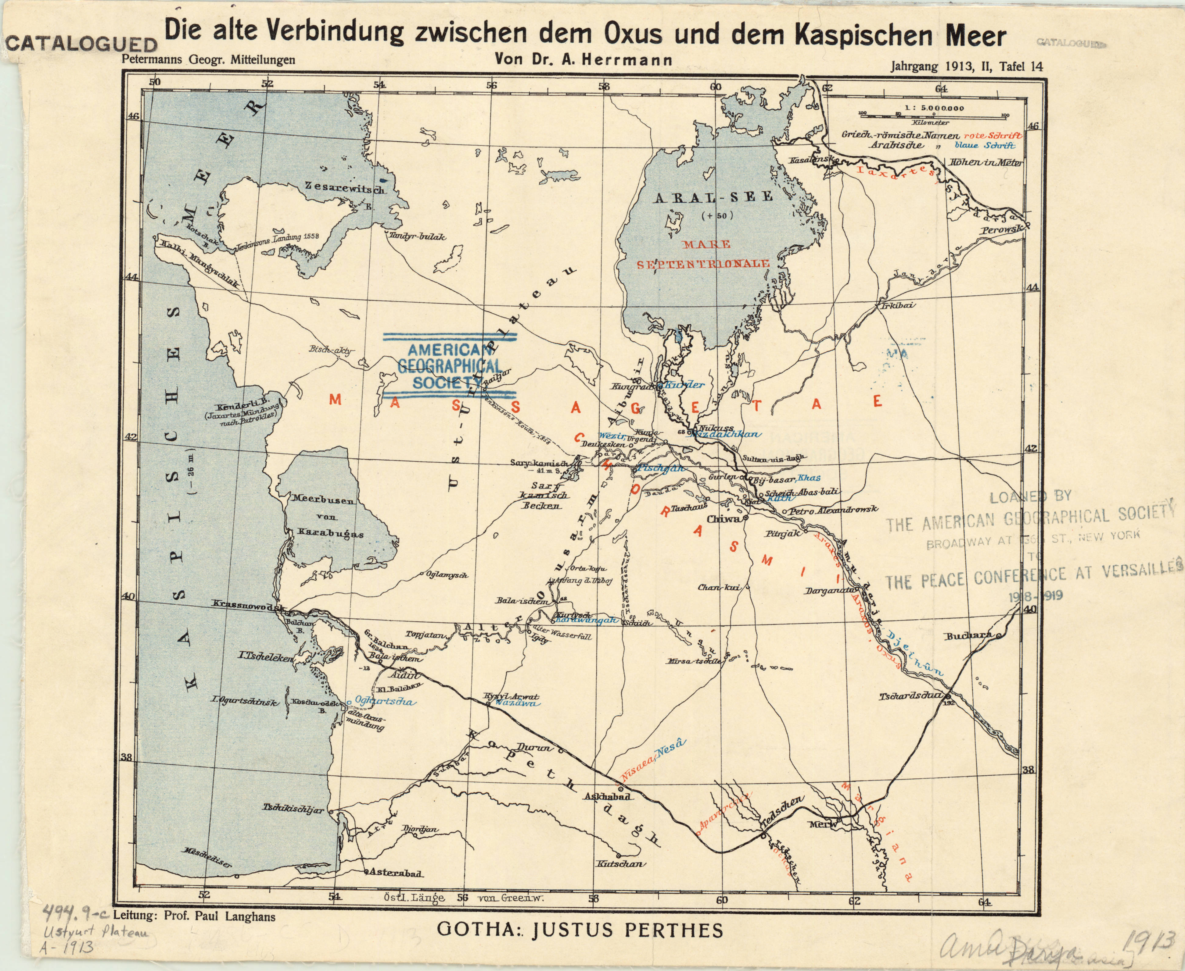 1913 map of Transoxiana